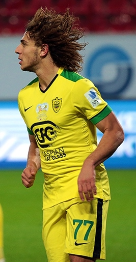 Georgi Tigiyev